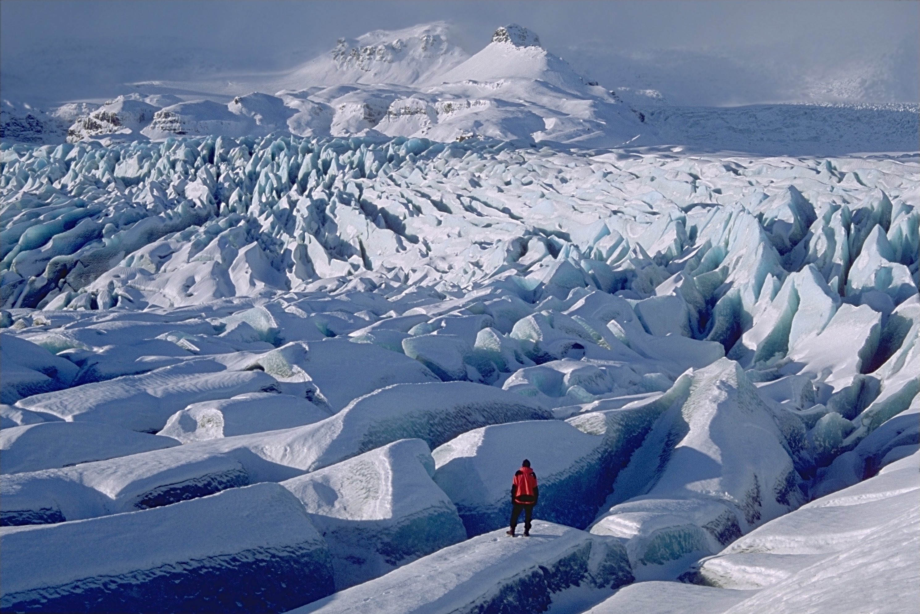 Breiðamerkurjökull, part of Vatnajökull near Jökulsárlón, Iceland Photo was taken using the following technique: Film: Fuji Velvia Lens: 4/70-210 Filter: none Body: Minolta Dynax 7 Support: Manfrotto 190B Image with Information in English Bild mit Informationen auf Deutsch